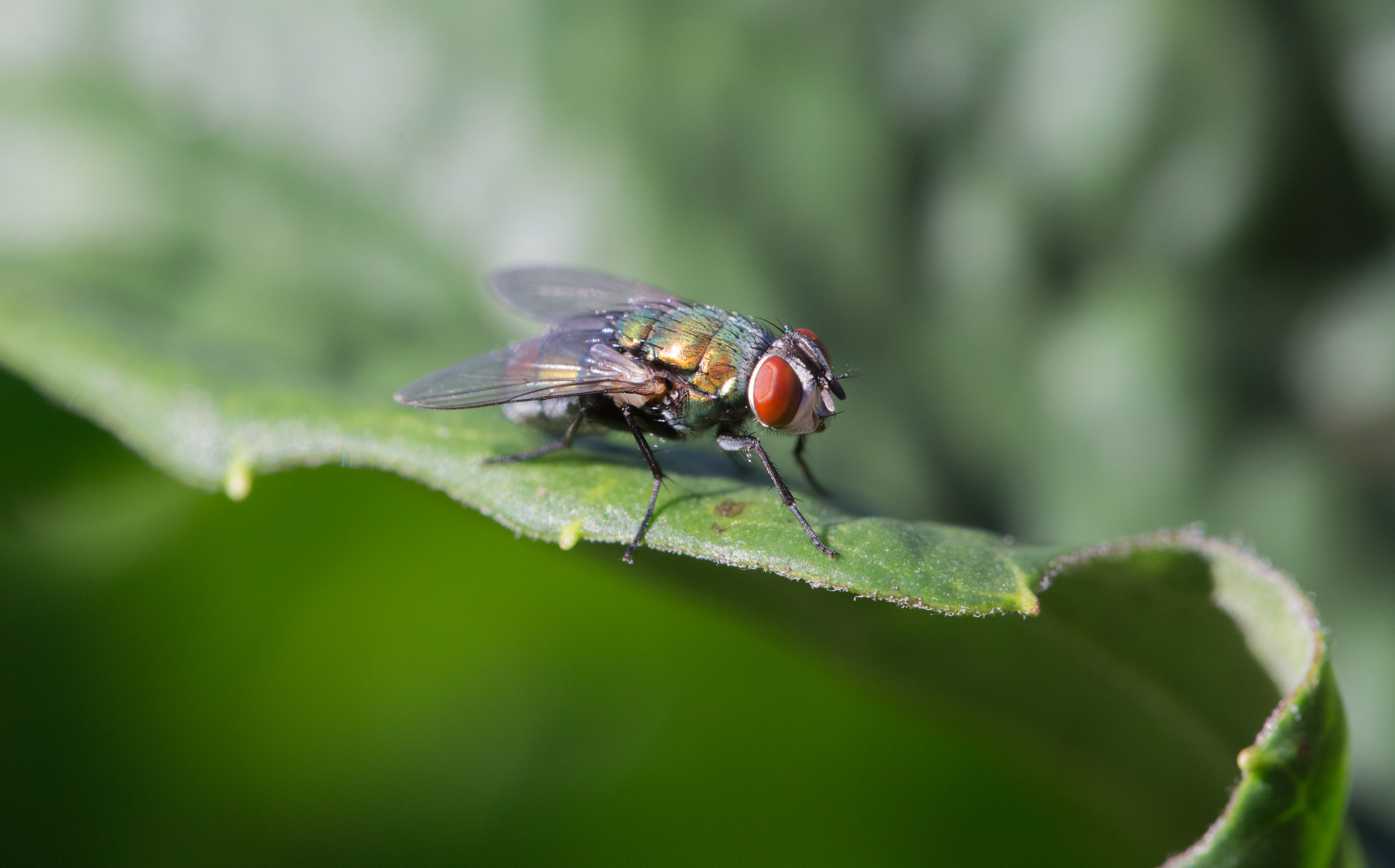 Australian sheep blow fly